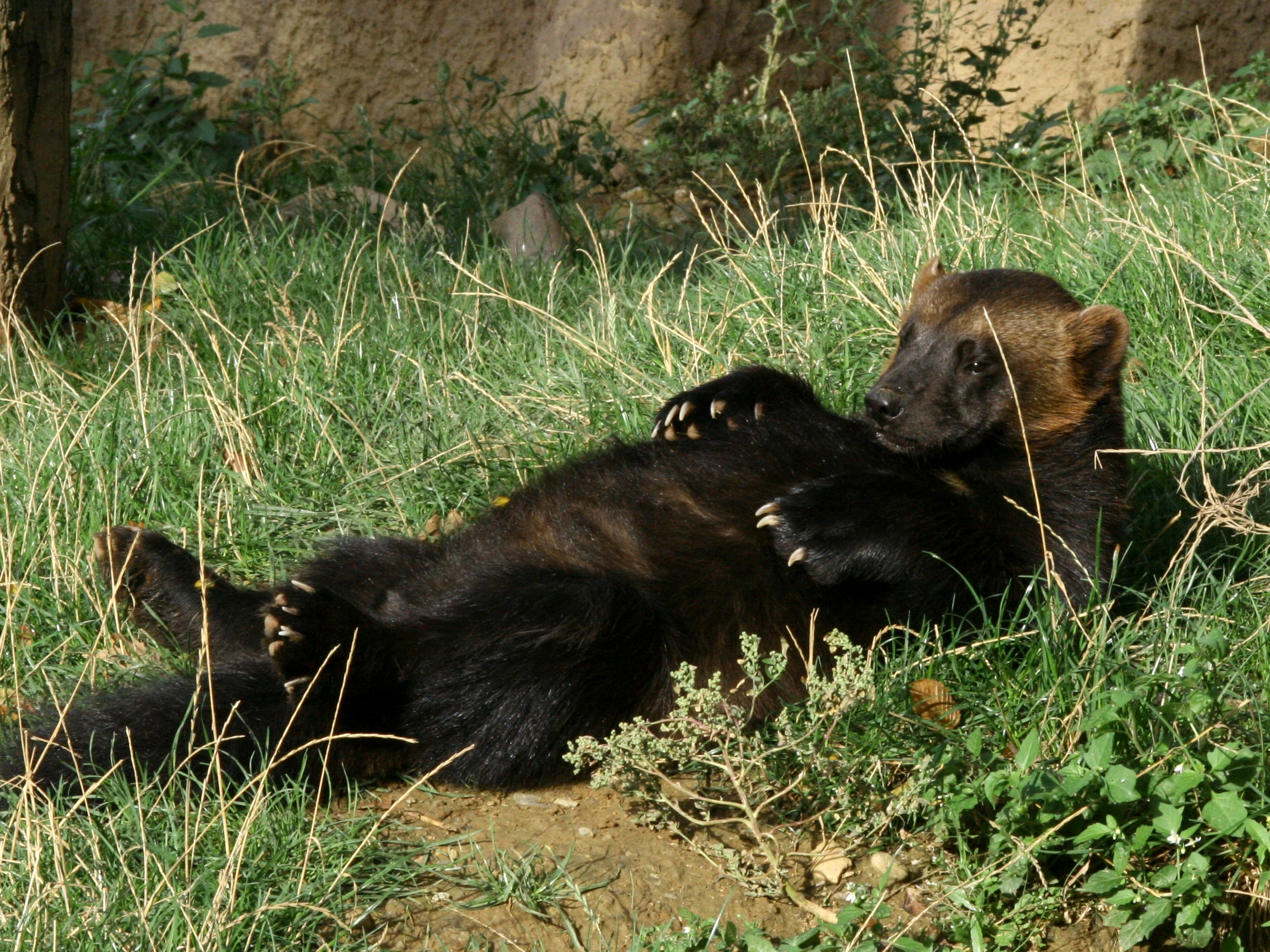 Wolverine (Gulo gulo) in Zoo Brno, Czech Republic